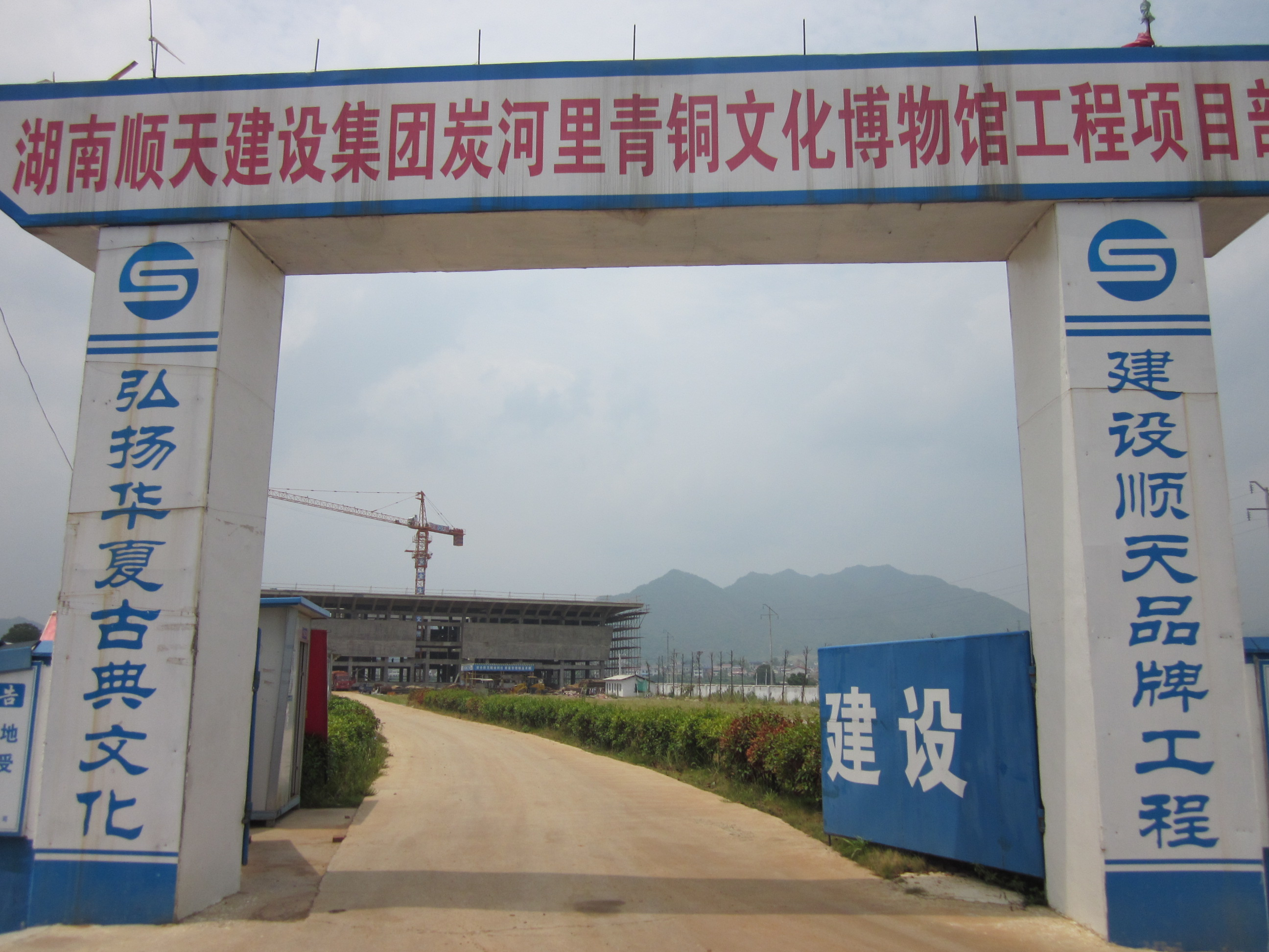 Museum of Tanheli Ancient Ruined Site,is located in Ningxiang County,Hunan Province,China.中文（中国大陆）: 炭河里青铜文化博物馆，位于湖南省长沙市宁乡县黄材镇。